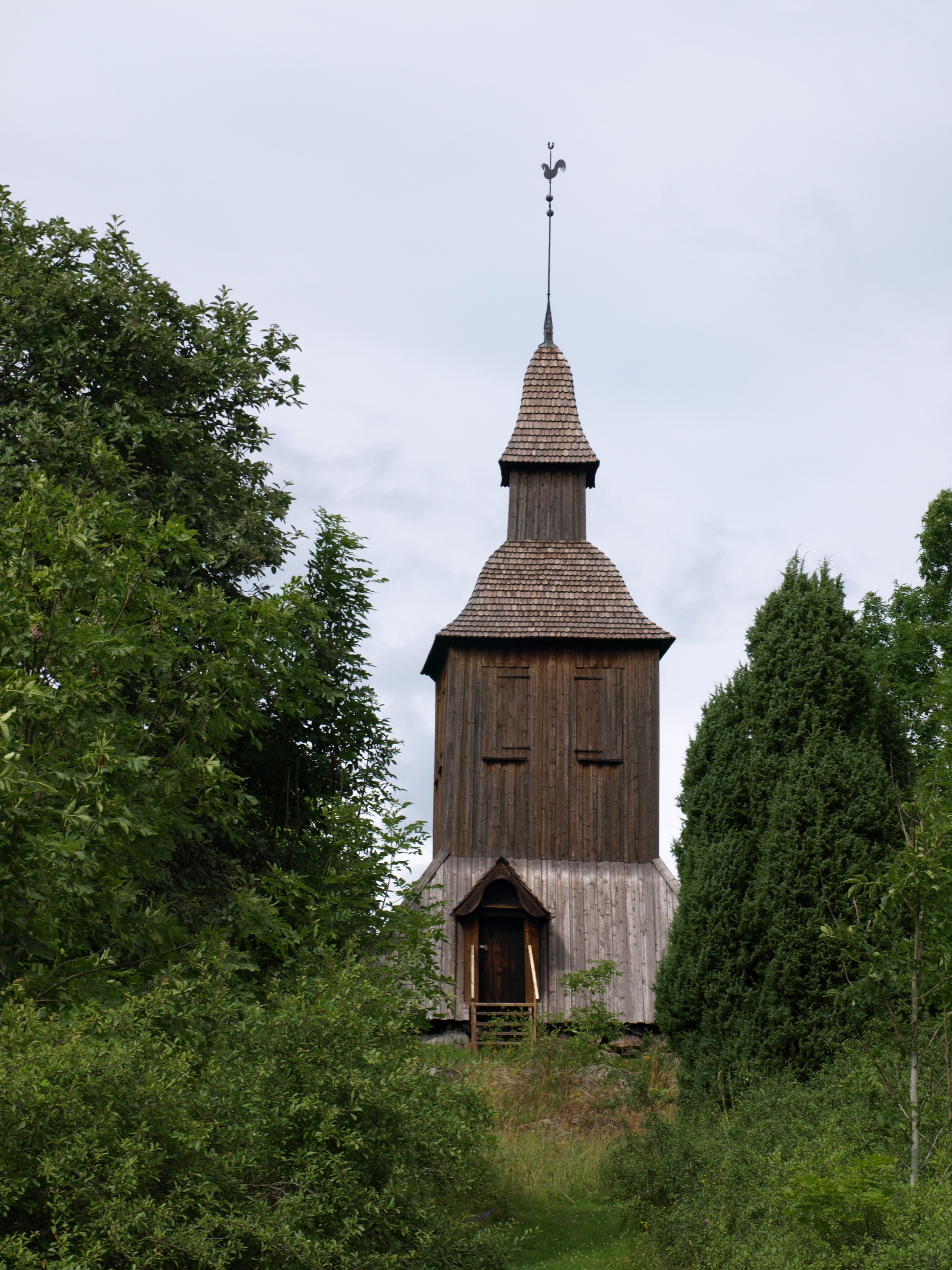 The bell tower of Gryta church, Uppland, Sweden